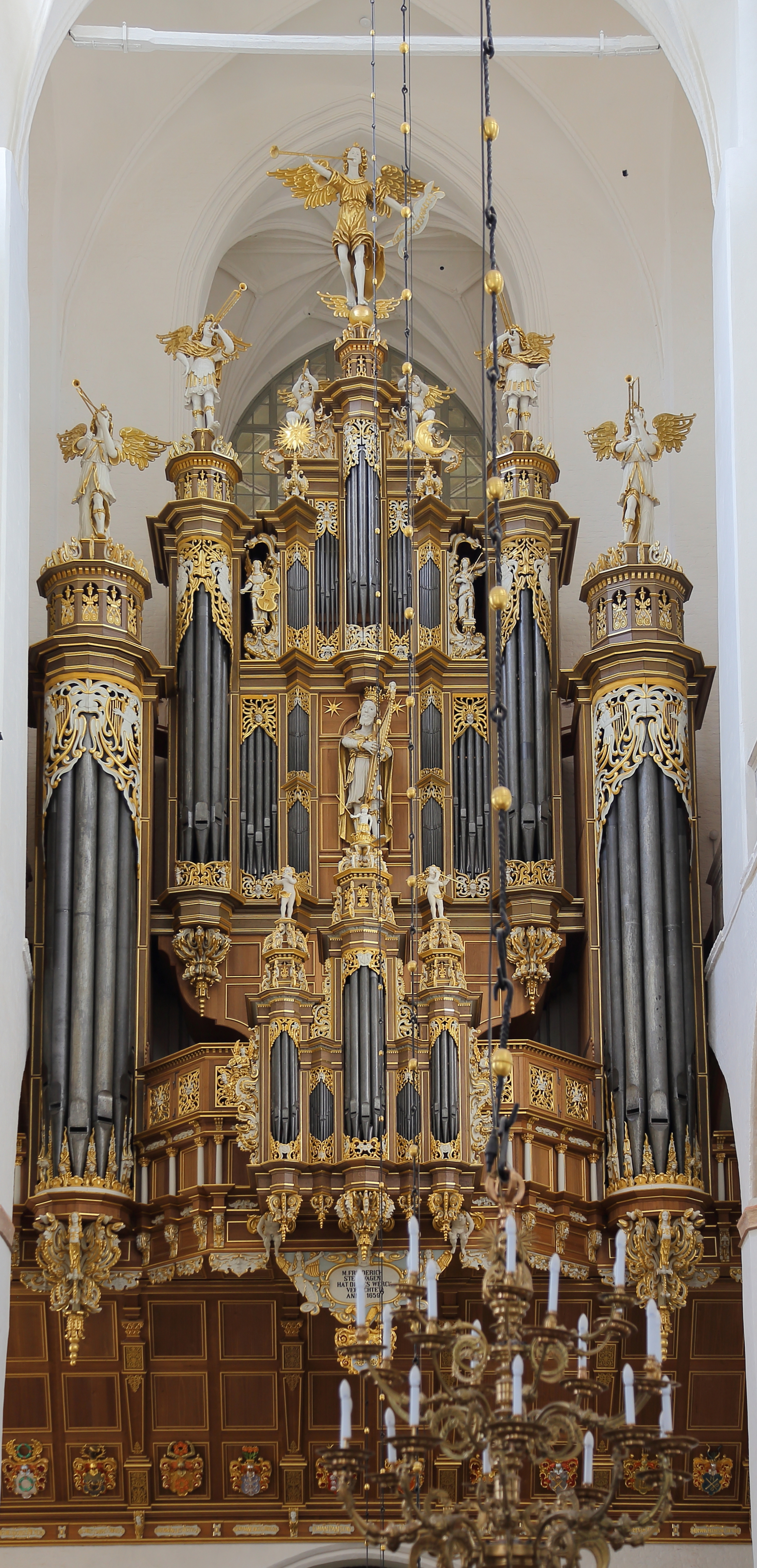 The Stellwagen Organ at the Protestant Saint Mary Church (St.-Marien-Kirche) in Stralsund, Landkreis Vorpommern-Rügen, Mecklenburg-Vorpommern, Germany.